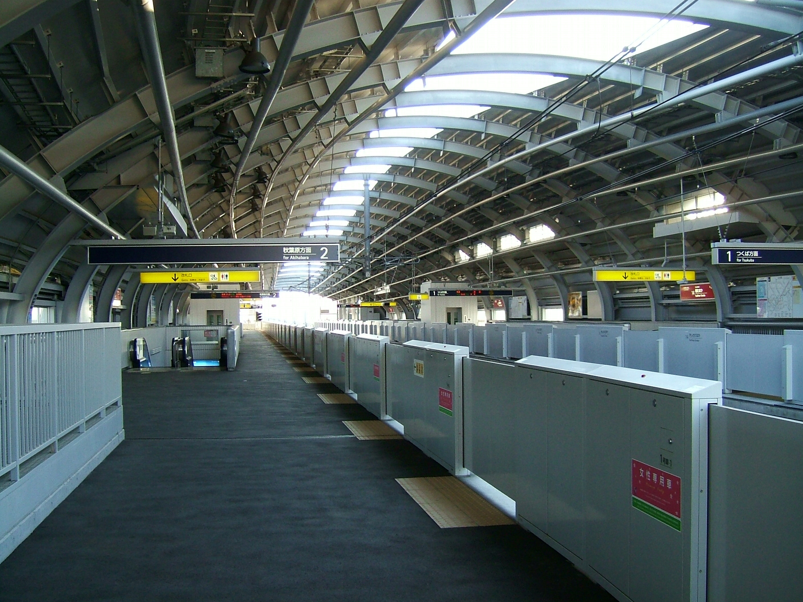 Kashiwa-​Tanaka Station platform (Tsukuba Express)